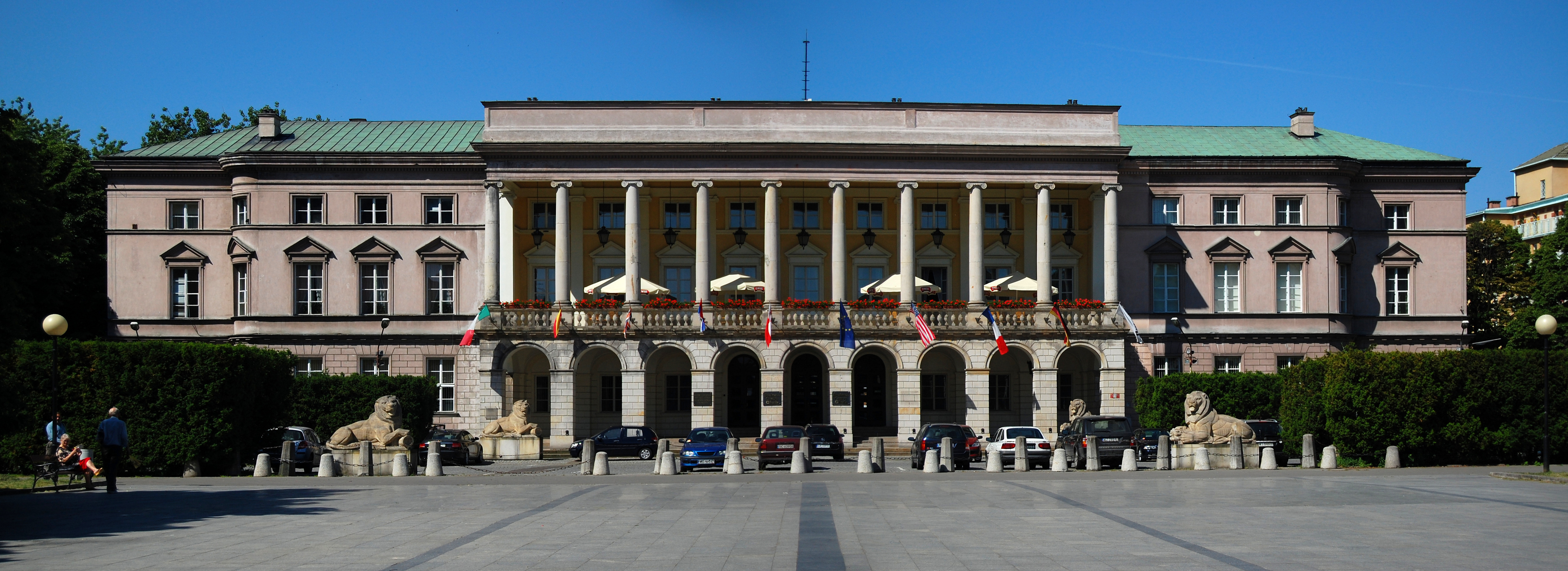 Lubomirskich Palace, Warsaw, Poland.